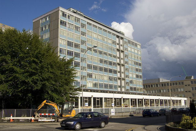 Aberdeen College The main provider of further education in Aberdeen. According to the College website, it's the largest such institution in Scotland, with over 34,000 students enrolled and nearly 5,000 courses on offer.